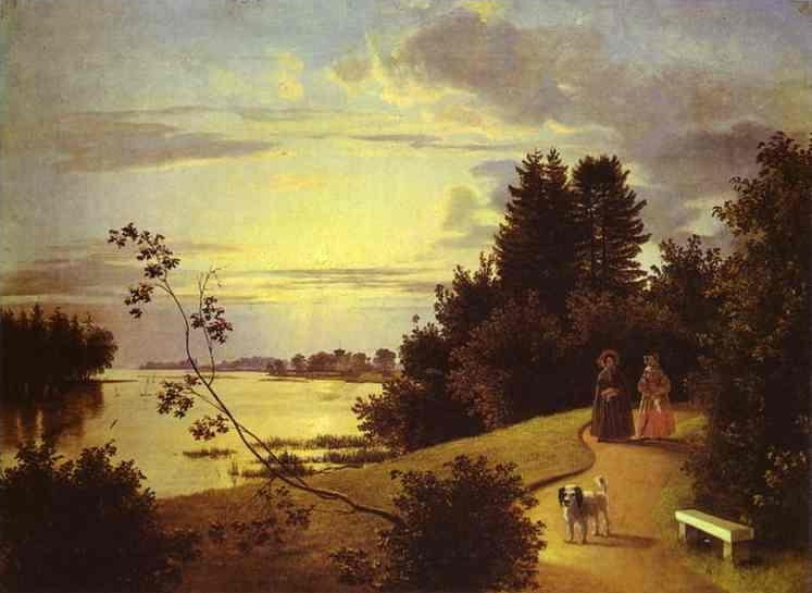 Yelagin Island